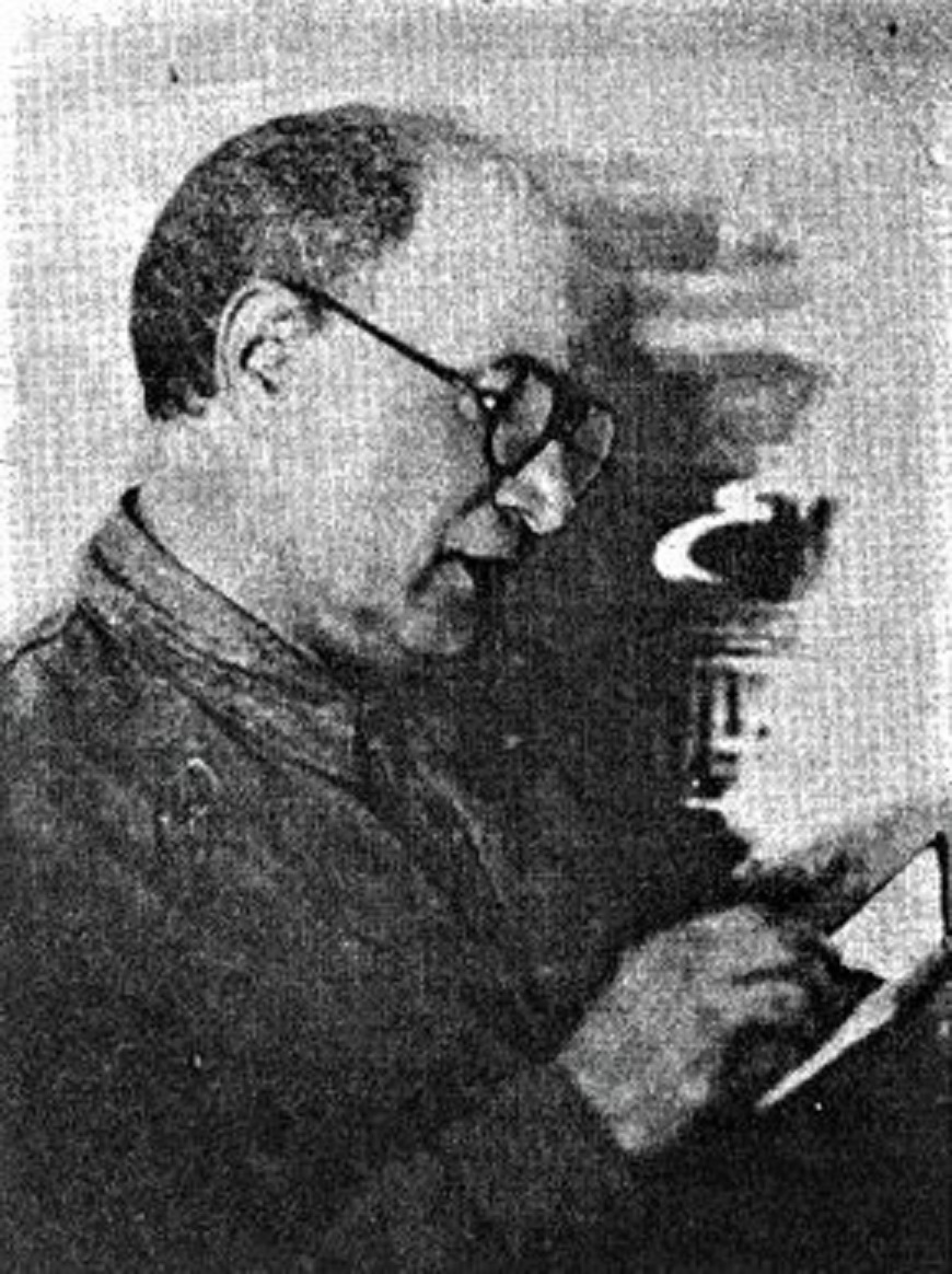 Jakov Jadov , russian and soviet poet